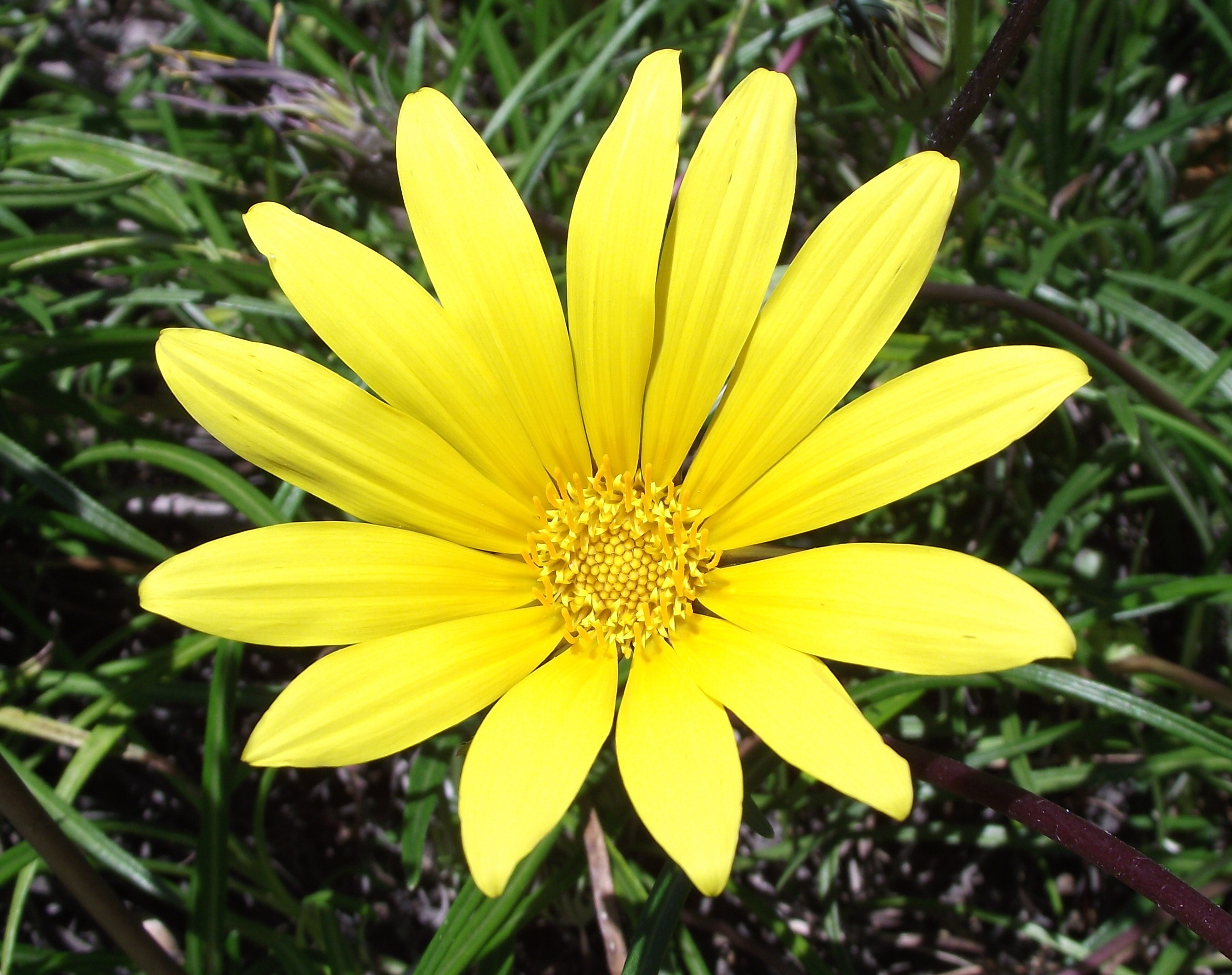 Gazania krebsiana in the UC Botanical Garden, Berkeley, California, USA. Identified by sign.